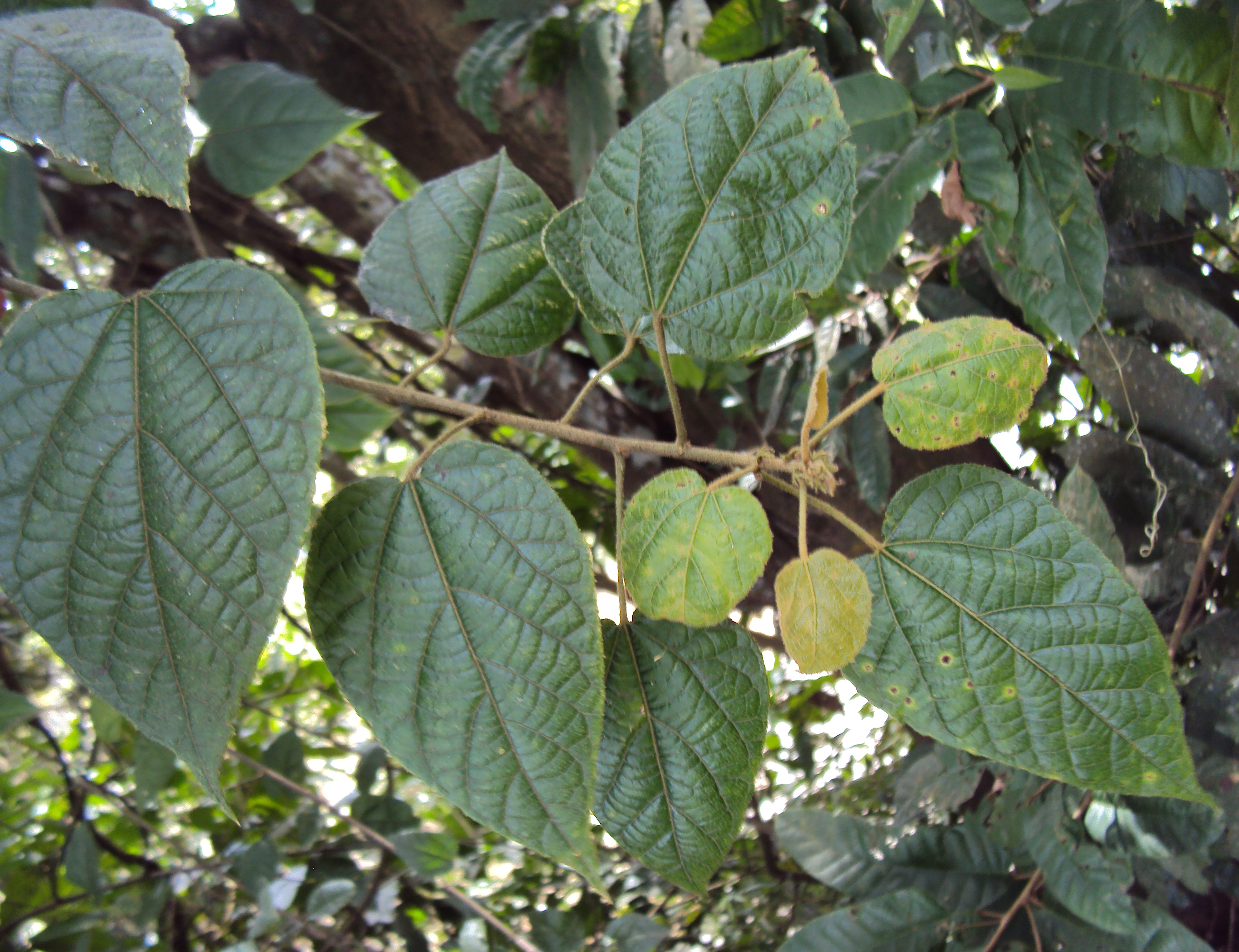 Croton caudatus